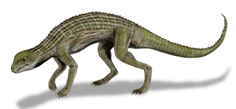 Adamantinasuchus navae, a crocodylomorph from the Late Cretaceous of Brazil, pencil drawing, digital coloring